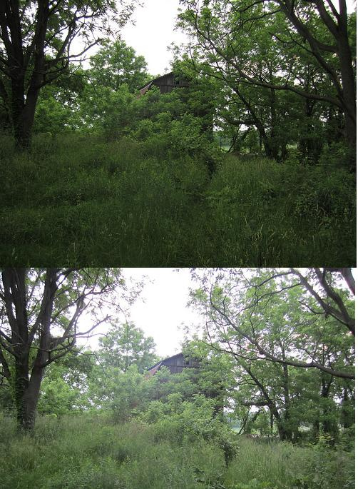 A comparison between virtually the same photos taken successively, one with automatic camera settings, the other with manual settings. Auto setting is particularly bad in this case due to the harsh lighting scenario with a hazy cloudy, but still bright, day. This was an entry level Canon PowerShot SD1400IS, that in my opinion made greens look extraordinary, but judging by its Commons Cat isn't considered a great camera.